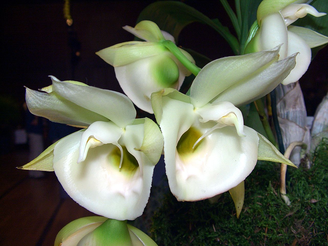 Catasetum pileatum - flowers